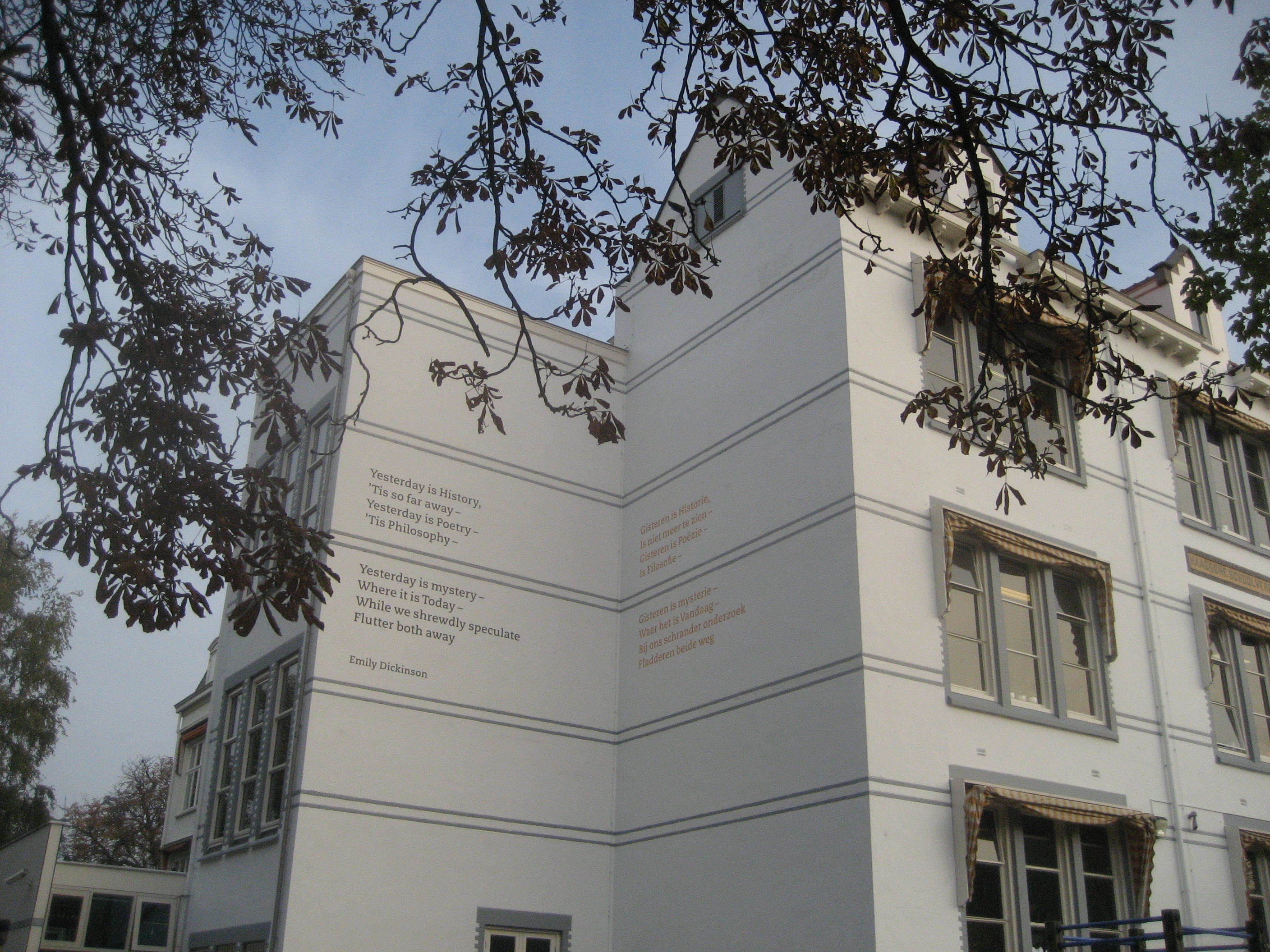 Wall poem in The Hague. "Yesterday is History" by Emily Dickinson on the wall of the Internationale Basisschool HSV (Haagsche School Vereniging), Nassaulaan 26, The Hague. Translation by Peter Verstegen: "Gisteren is Historie". Painted: October 2016, Foundation ArchipelpoëZie. Yesterday is History 'Tis so far away - Yesterday is Poetry - 'Tis Philosophy - Yesterday is mystery - Where it is Today - While we shrewdly speculate Flutter both away